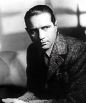 Cropped screenshot of Donald Cook from the trailer for the film The Casino Murder Case